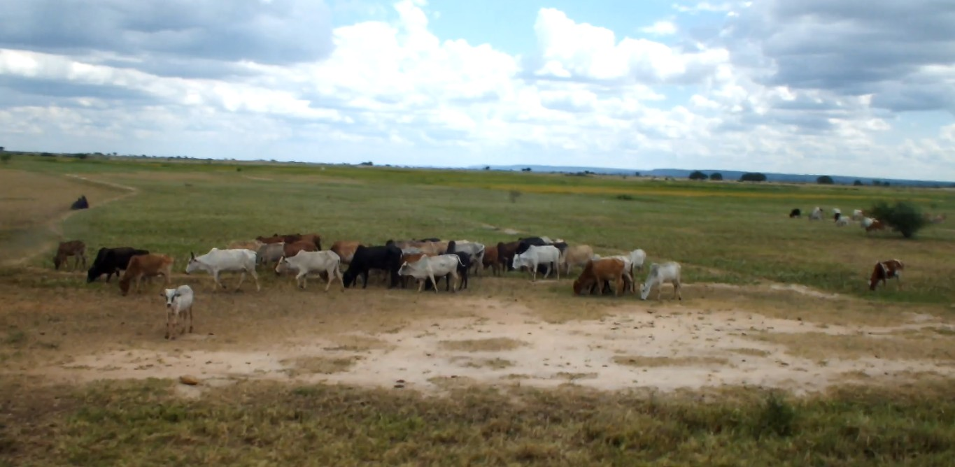 Afternoon glare over the East African plateau halfway between Singida and Nzega. (A frame from the video I took in the area.) Kiswahili: Nzuri tambarare na afya ng'ombe.